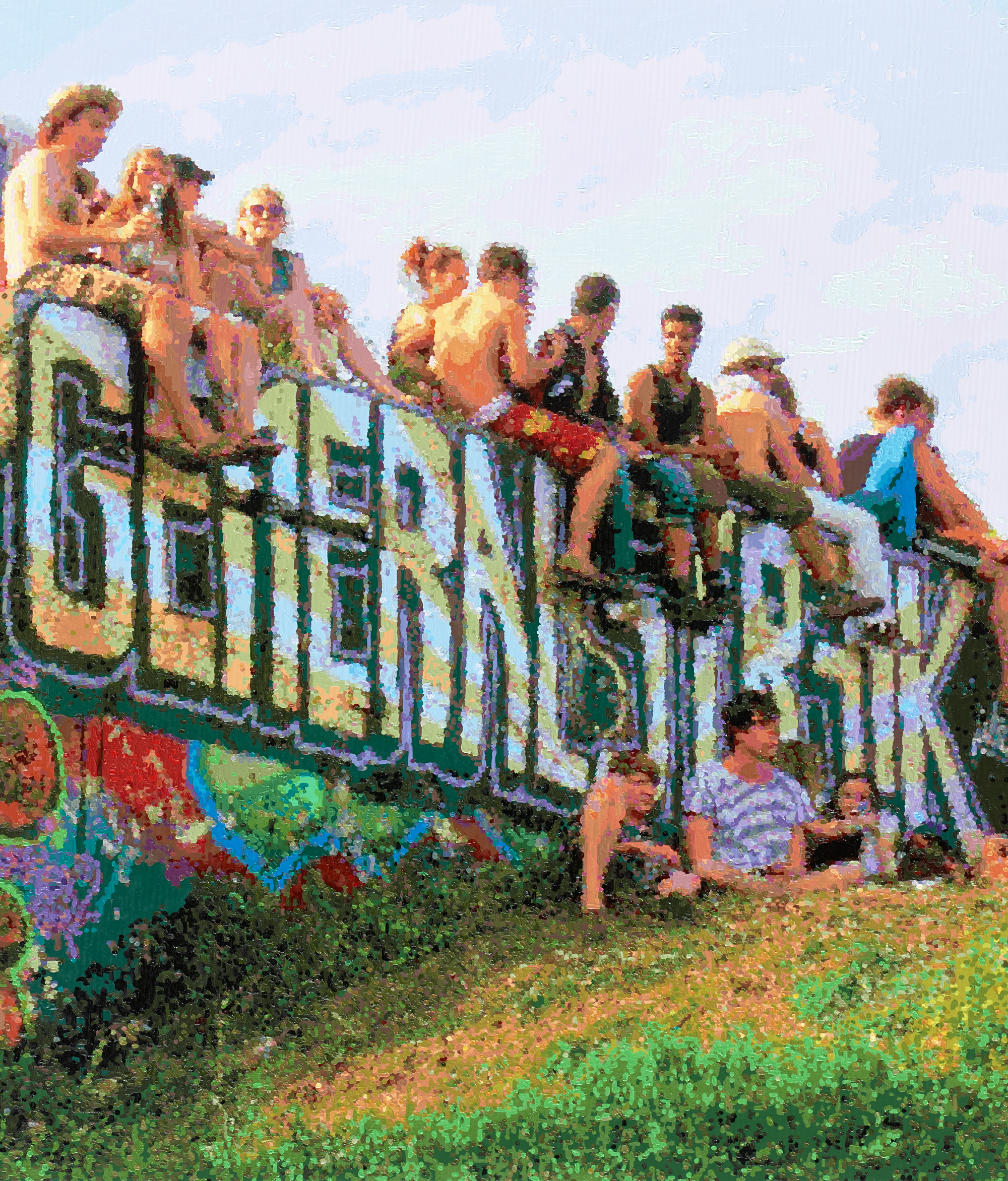 Römer + Römer „Generalstreik“, 2015, 110 x 150 cm, Oil on canvas (Ausschnitt)